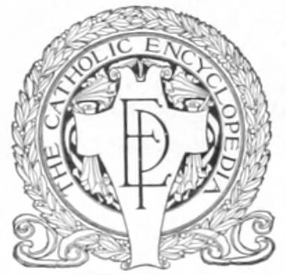 Publisher's logo (The Encyclopedia Press) from the title page of Volume 1 of the Catholic Encyclopedia, 1913